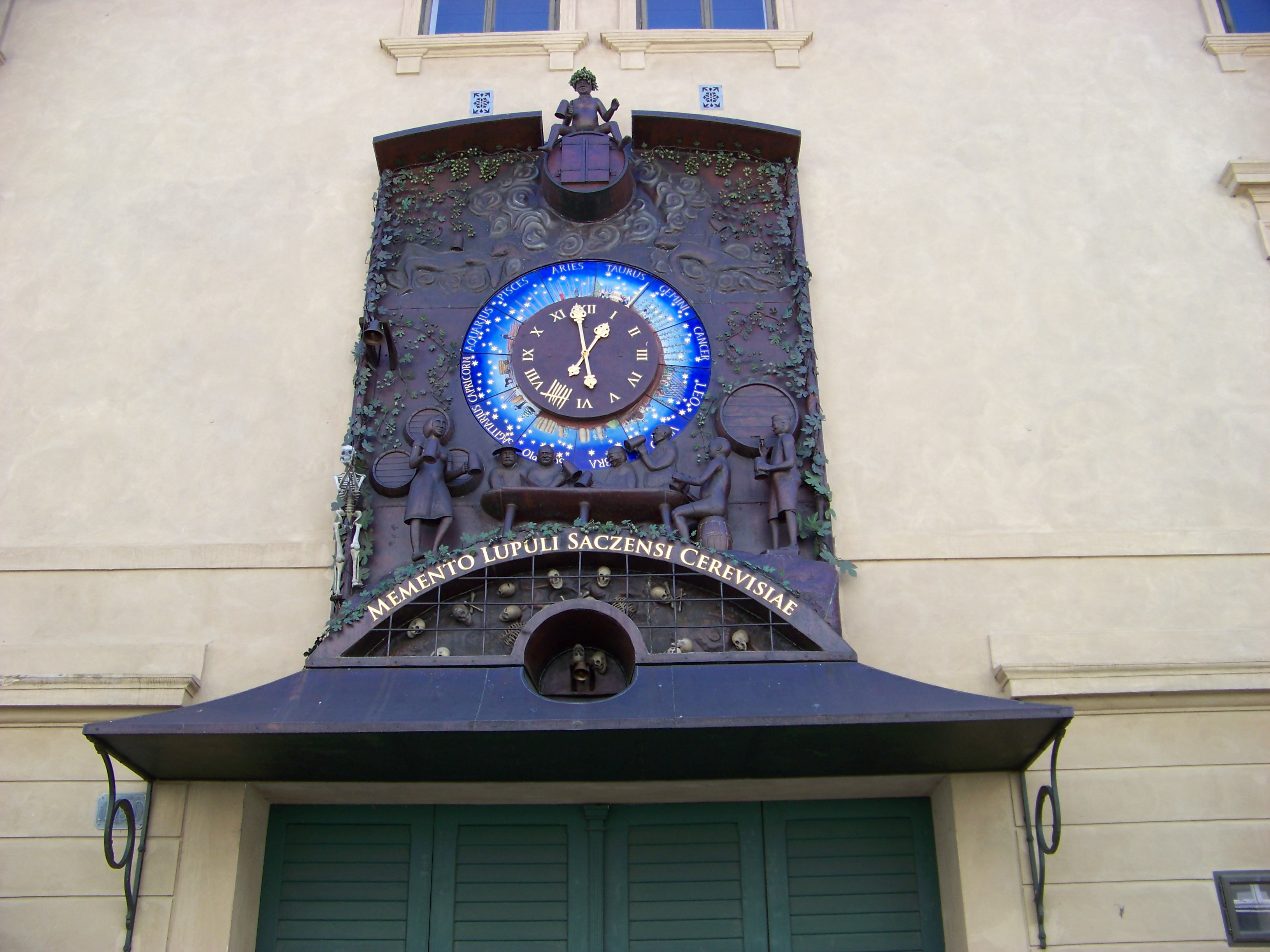 Žatec, Louny District, Ústí nad Labem Region, Czech Republic. Nám. Prokopa Velkého 1950, Temple of Hop and Beer.